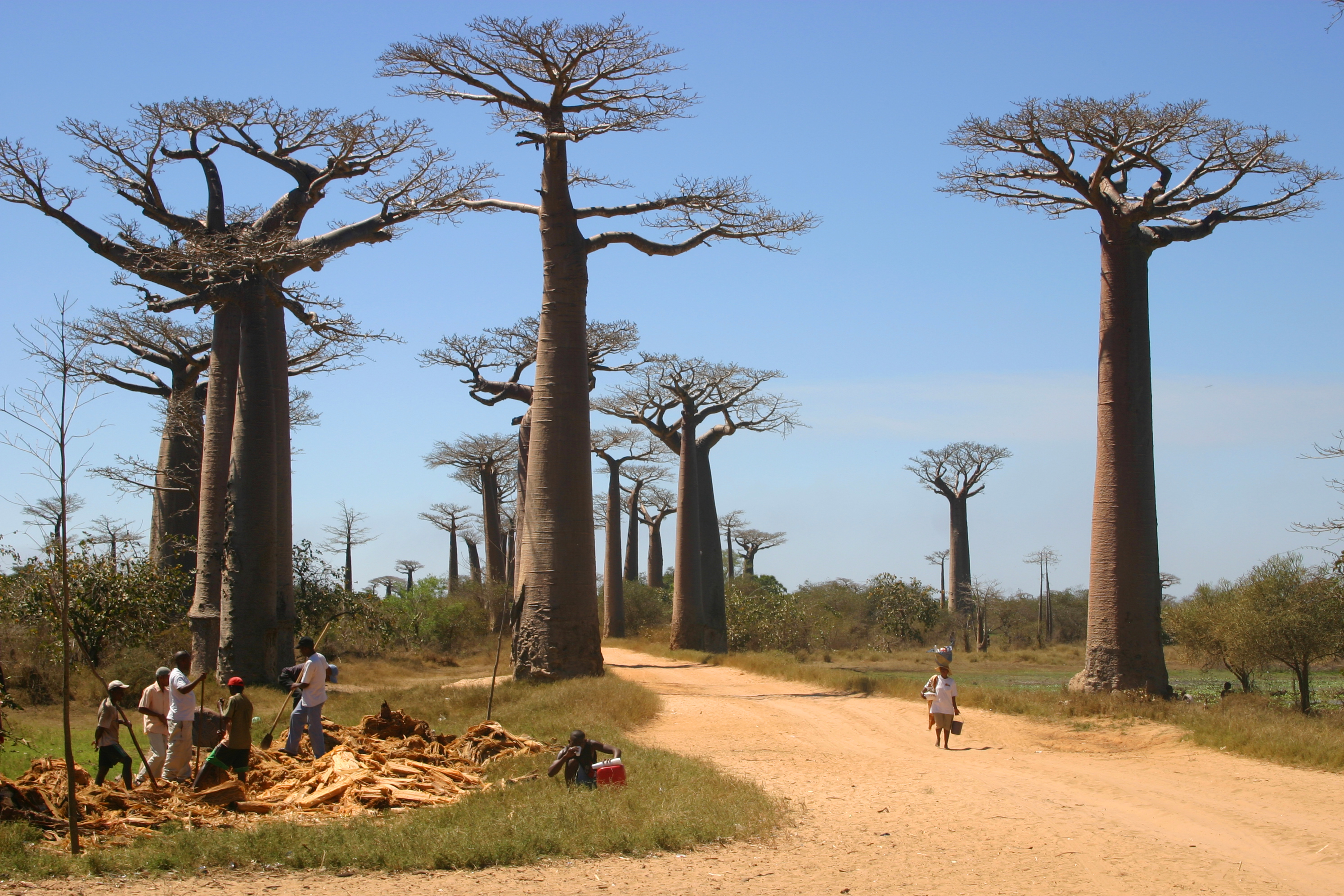 Avenue of the Baobabs